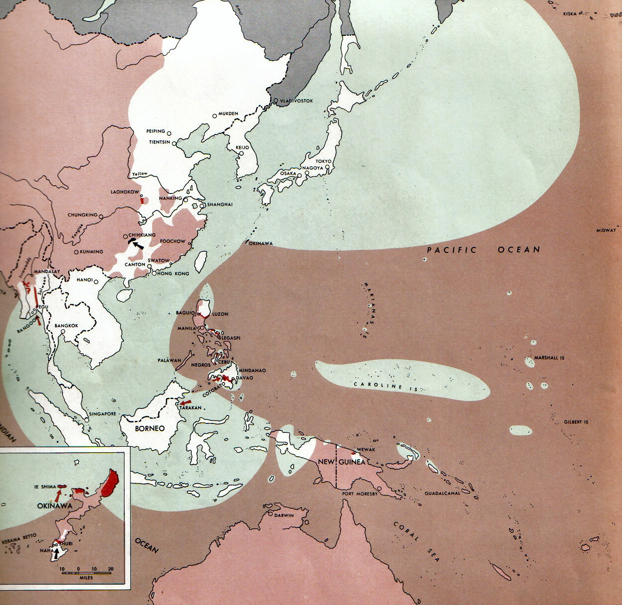 Map of the front against Japan as of 1 May 1945: This map is taken from the source "Atlas of the World Battle Fronts in Semimonthly Phases to August 15th 1945: Supplement to The Biennial report of The Chief of Staff of the United States Army July 1, 1943 to June 30 1945 To the Secretary of War". (See Cover, Forward and Map details)